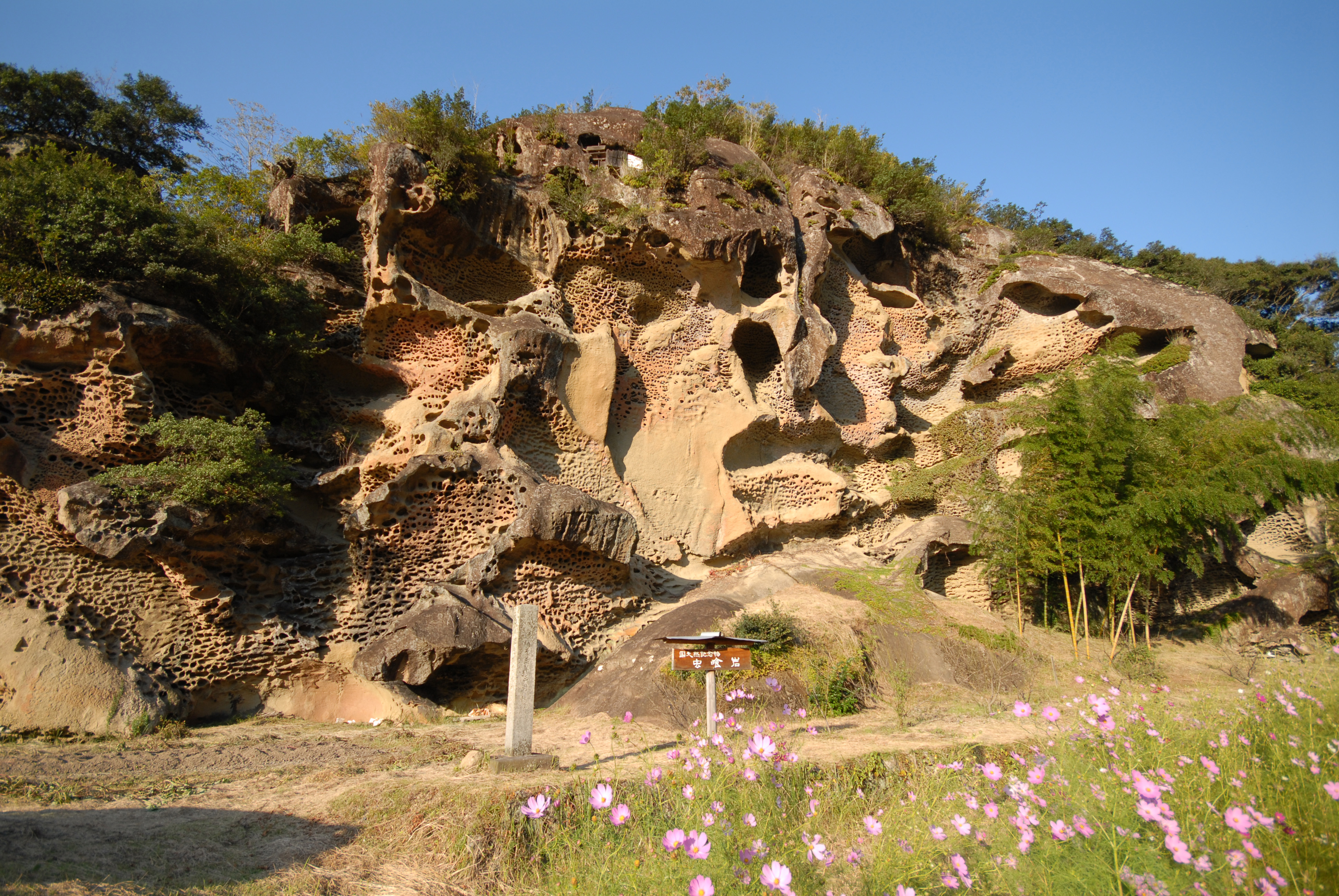 Mushikui-iwa (Mushikui Rock) is a Natural monuments in Japan in Takaike, Wakayama Prefecture, Japan